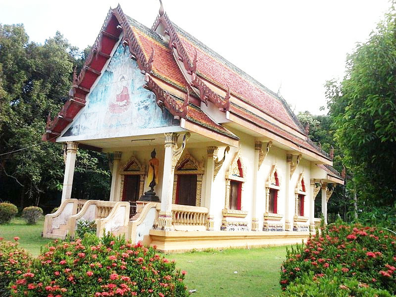 Wat Ko Lanta, Tambon Ko Lanta Yai, Amphoe Ko Lanta, Krabi Province